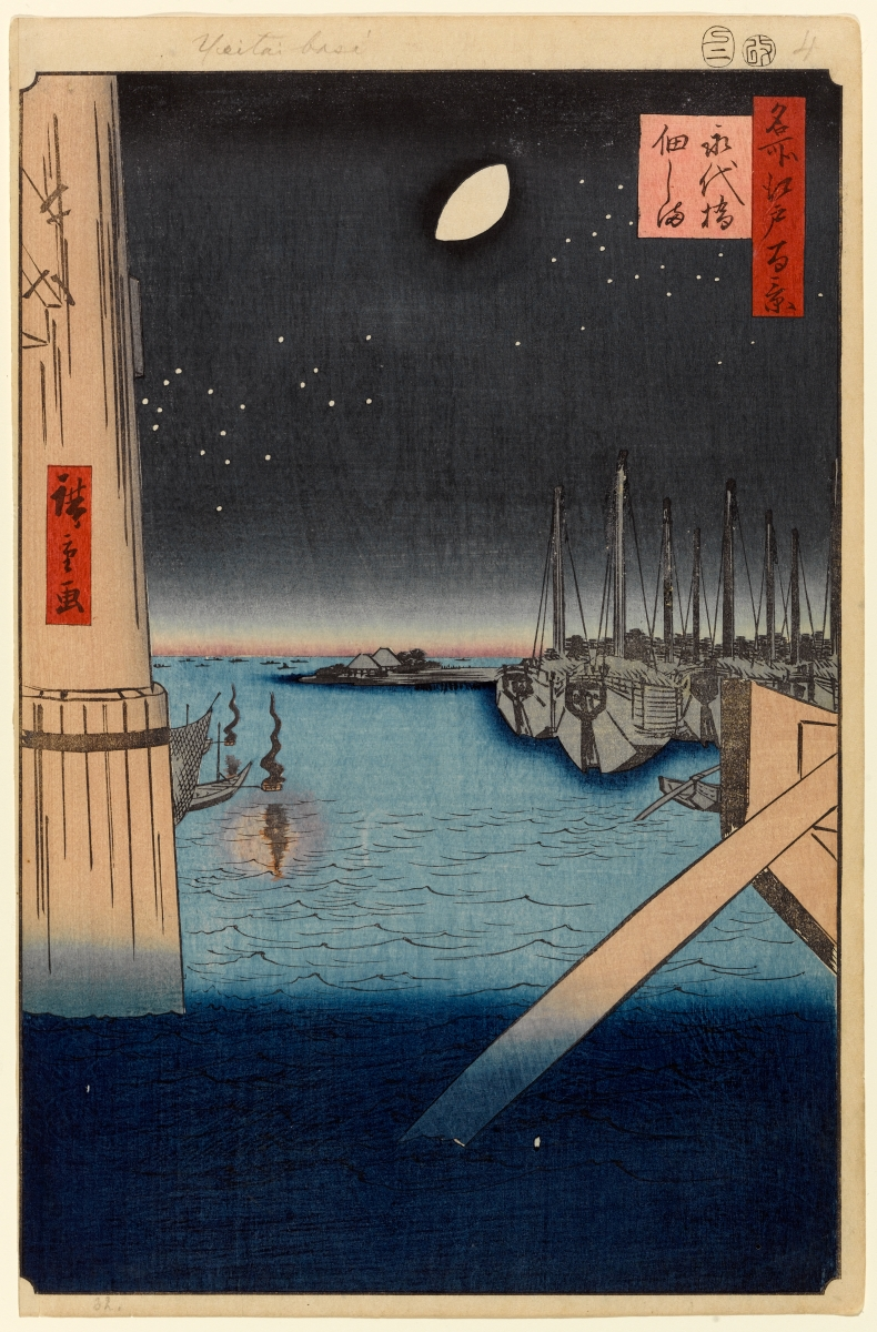 Part of the series One Hundred Famous Views of Edo, no. 004, part 1: Spring.